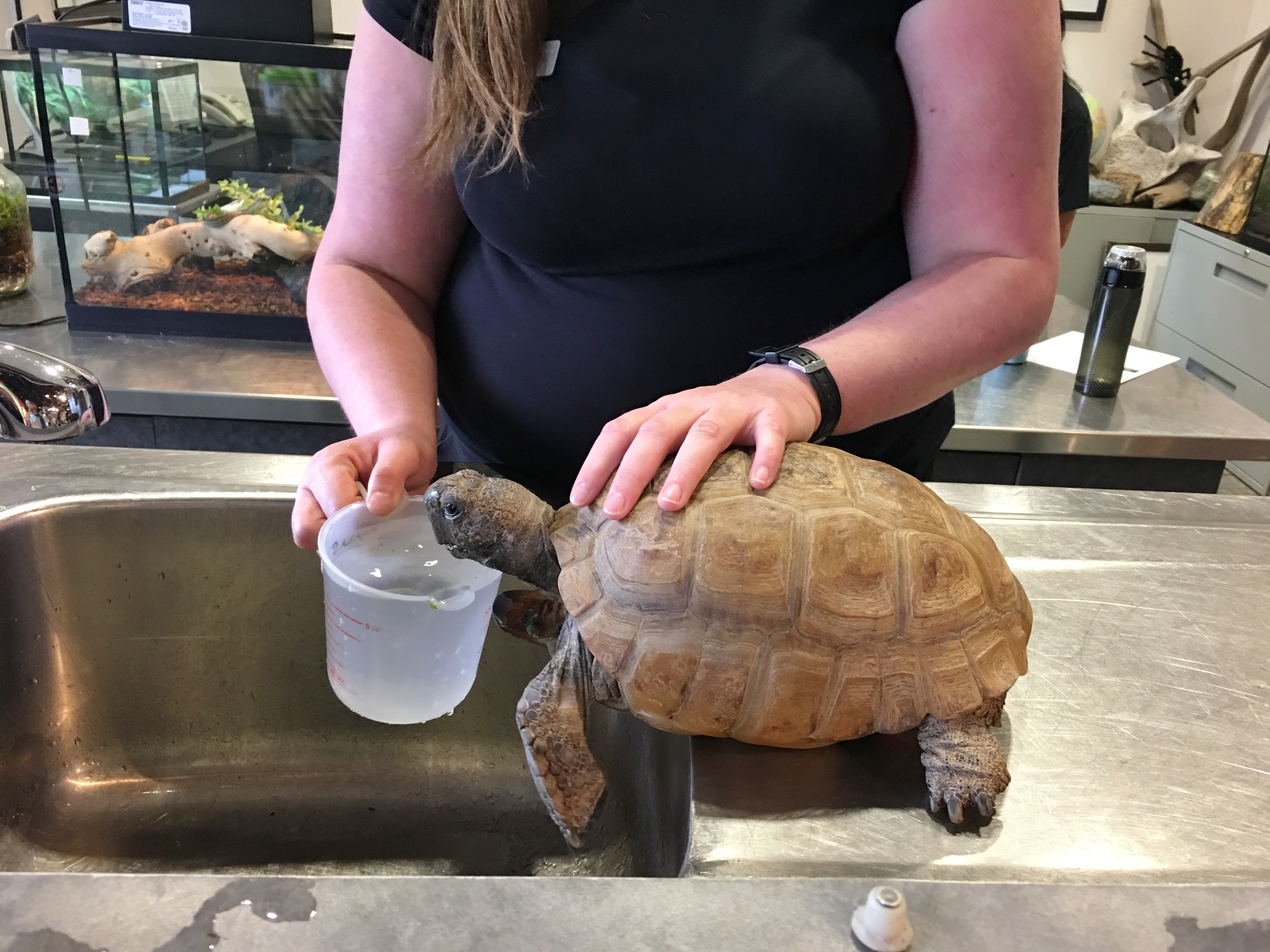 Gus, a 97-year-old gopher tortoise, who lives at the Nova Scotia Museum of Natural History in Halifax, NS, Canada (August 2019)